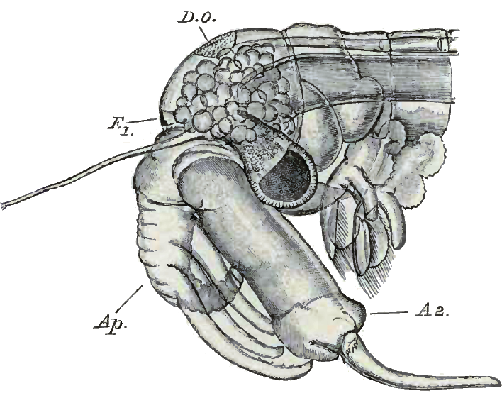 Fig. 5. Chirocephalus diaphanus, male. Side view of head, showing the large second antenna, A2 with its appendage Ap, above which is seen the filiform first antenna; D.O, dorsal organ ; E1 median eye.